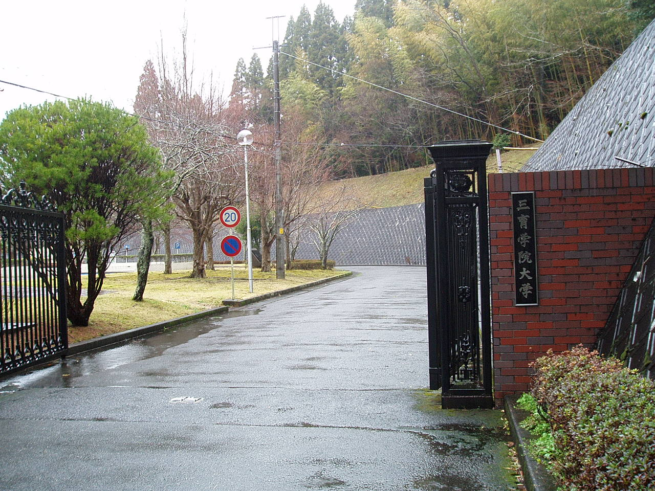 The entrance to Saniku Gakuin College located in Otaki, Chiba, Japan.